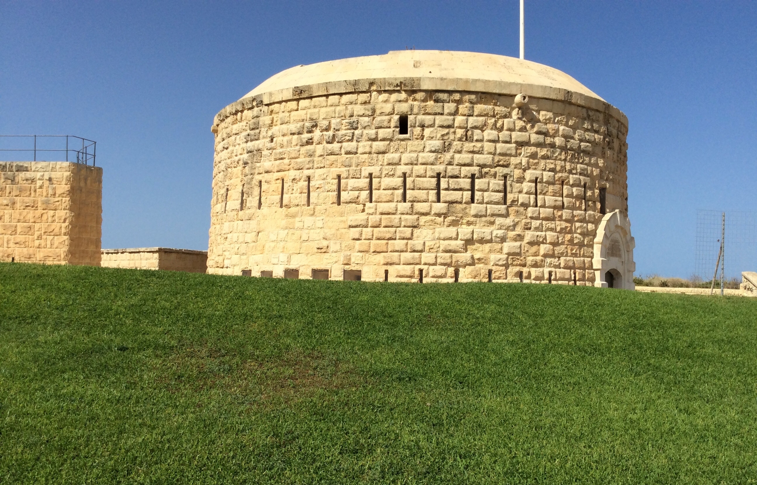 Tigne Fort